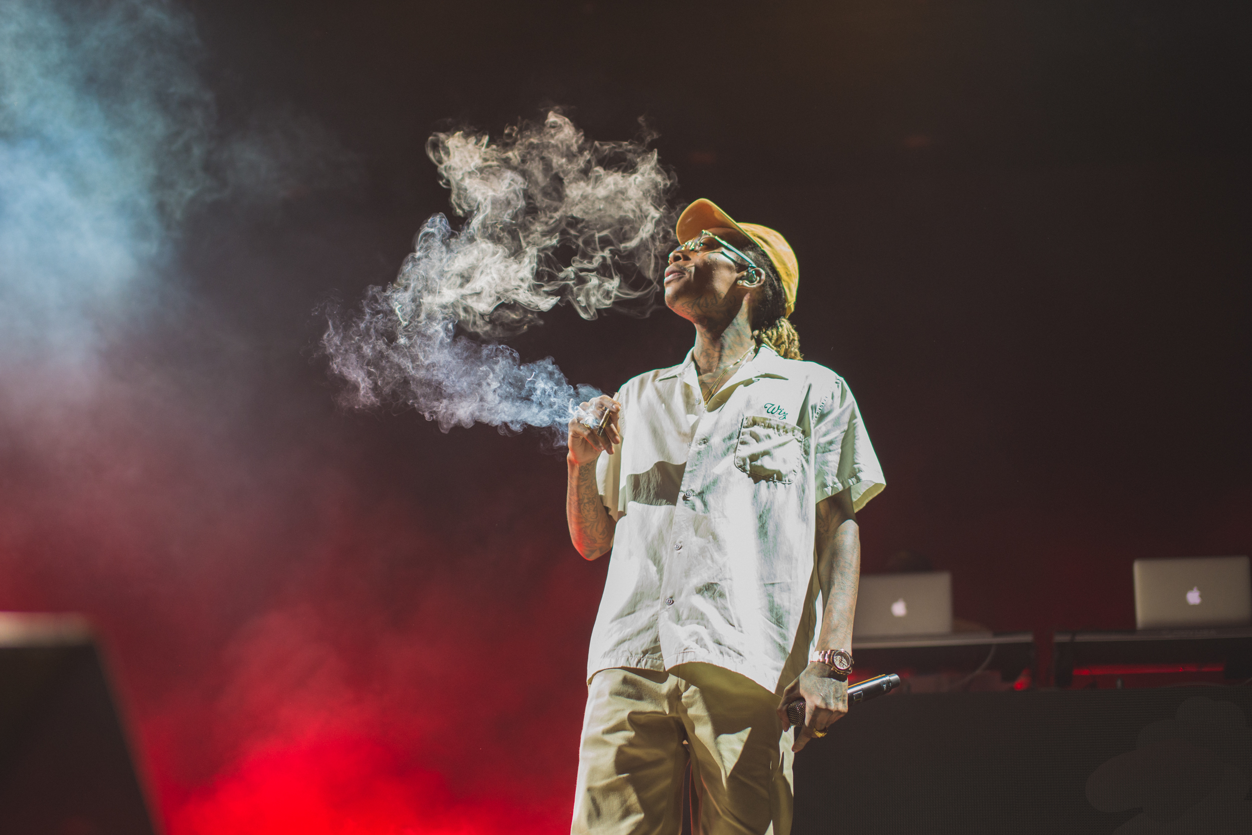 The High Road Summer Tour 2016 at the Molson Canadian Amphitheatre featuring Snoop Dogg, Wiz Khalifa, Jhené Aiko, Casey Veggies and Dj Drama. Photography by Charito Yap